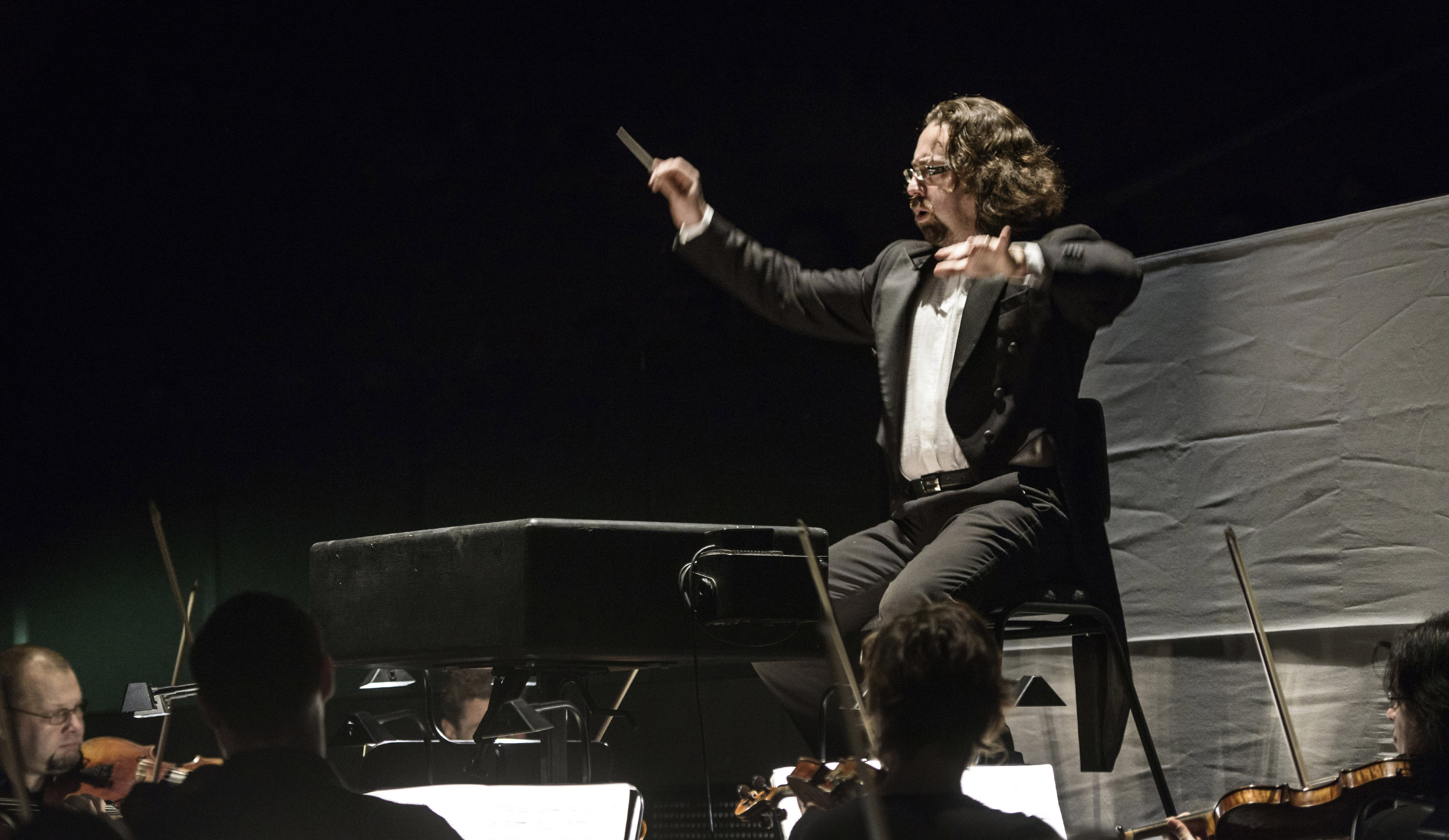 Conductor Francesco Bottigliero